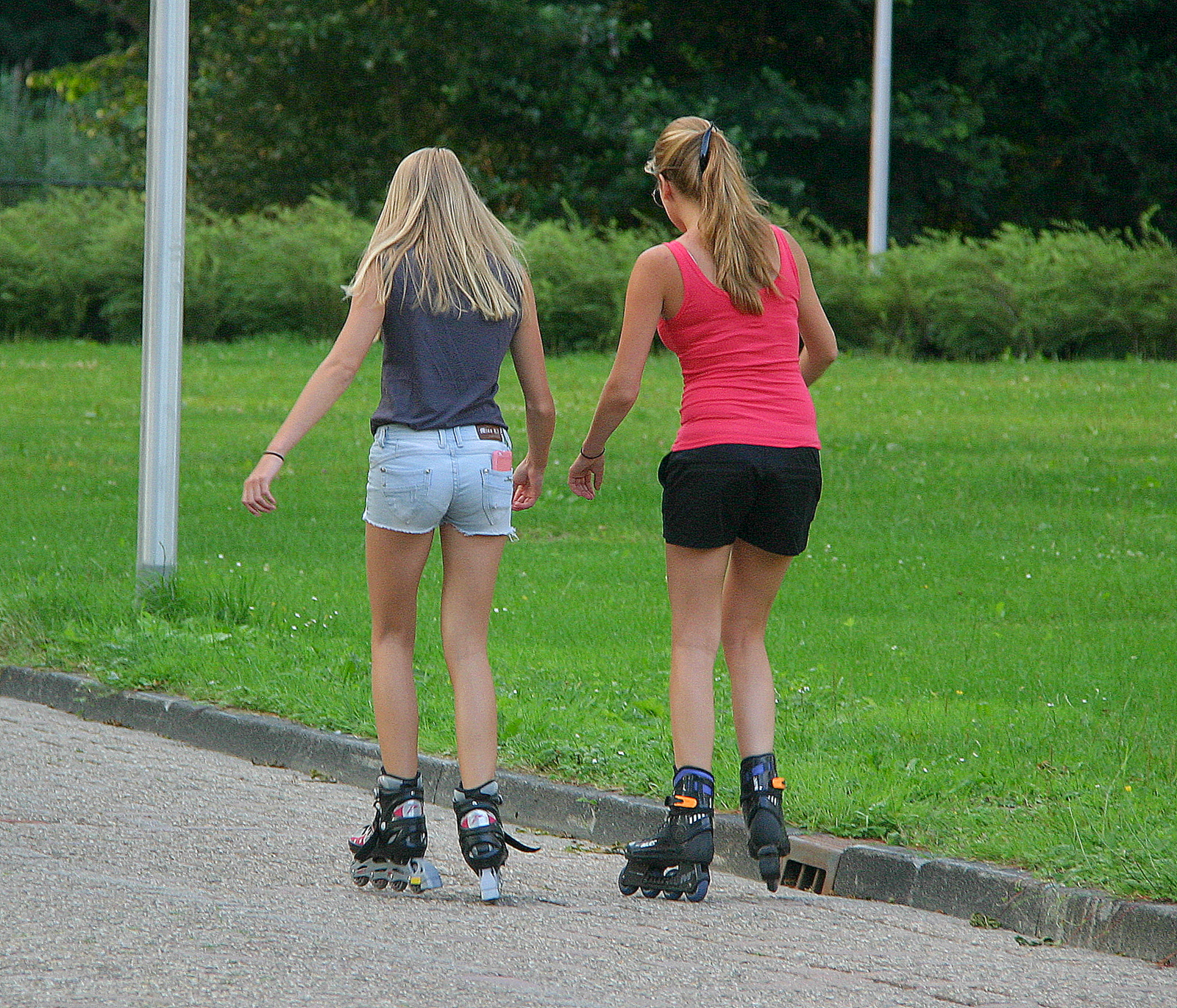 Two chicks skating